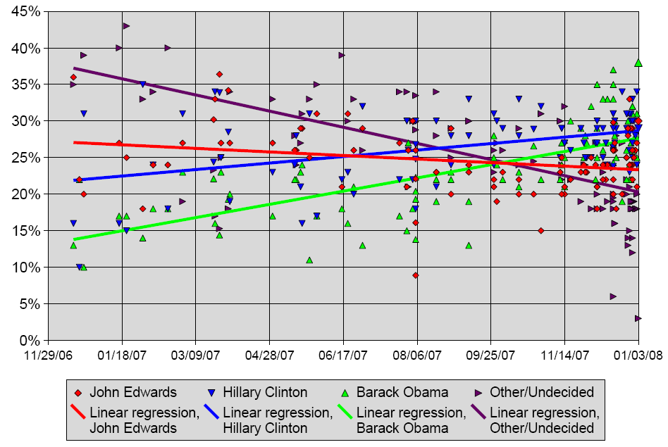 Chart summarizing poll data from Iowa for Edwards, Clinton and Obama with linear trendlines